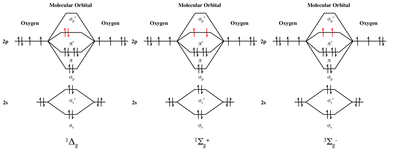 Molecular orbital scheme for triplet oxygen and the two forms of singlet oxygen